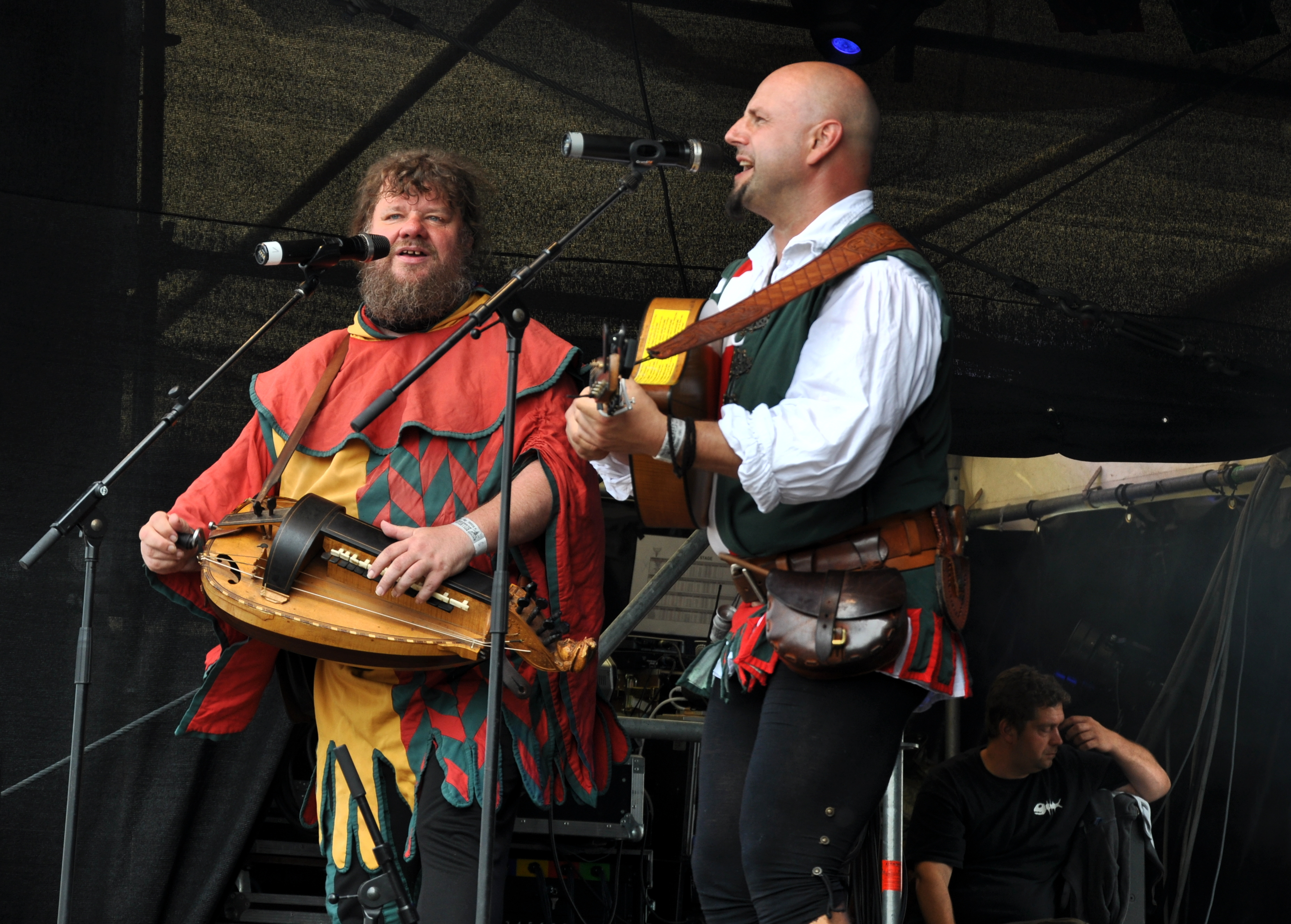 Pampatut at Wacken Open Air 2013